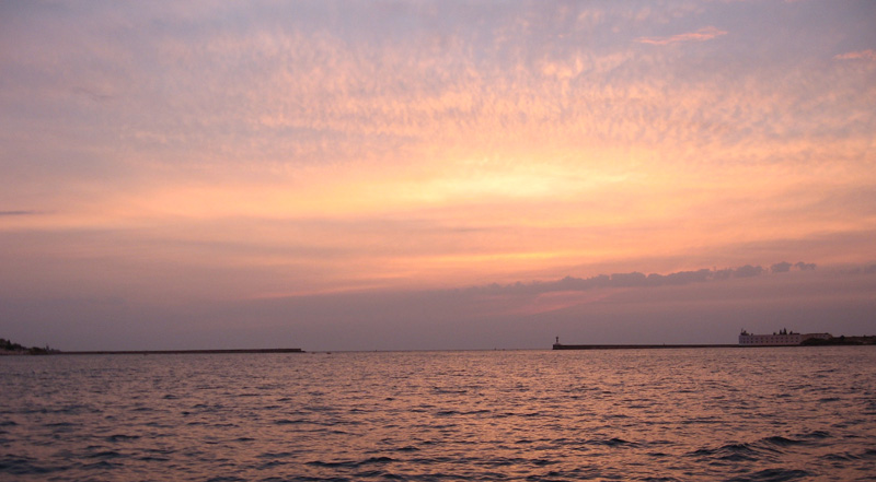 Sevastopol bay malls against waves